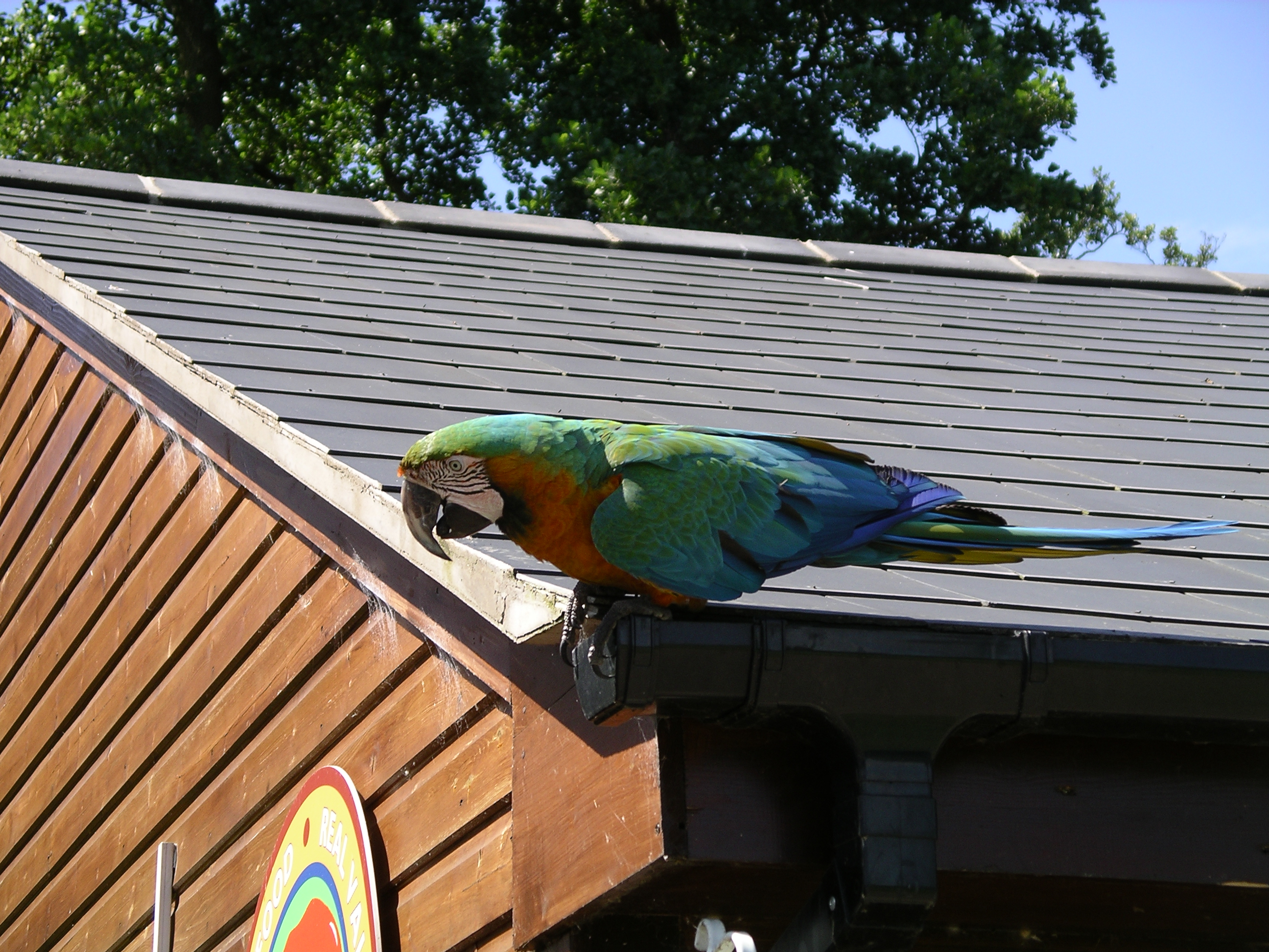 A hybrid Ara. A cross with a Blue-and-gold Macaw and another species. Parrot on a roof at Tropical Birdland.